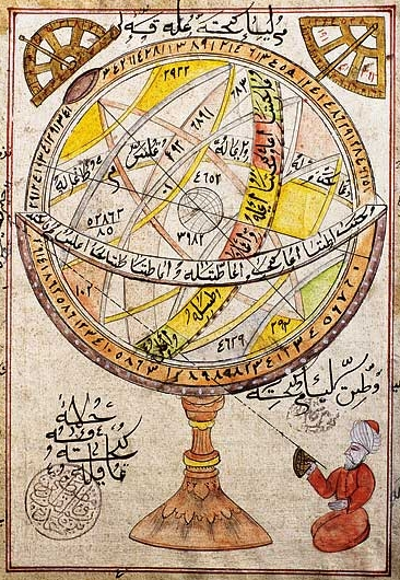 Othoman miniature of an Armillary sphere (16th century). Istanbul University Library